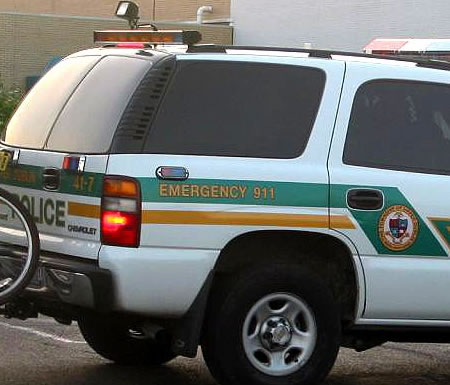 Photo of a police car. It was cropped from Image:Udpdtahoe.jpg to focus on the 9-1-1 part.